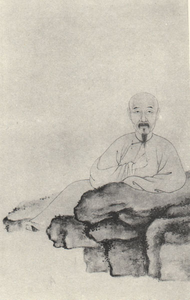 CAO Renhu, scholar of the Qing Dynasty.